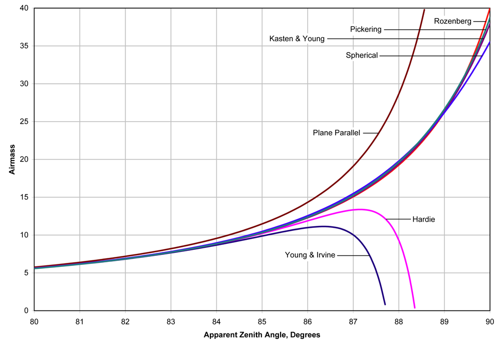 Created with Microsoft Excel.